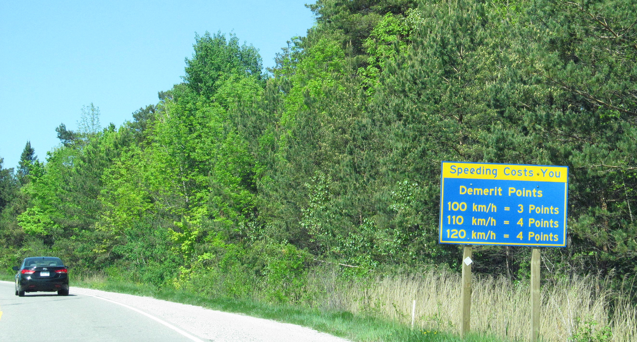 Demerit point warning on King's Highway 12 in Ontario, Canada.